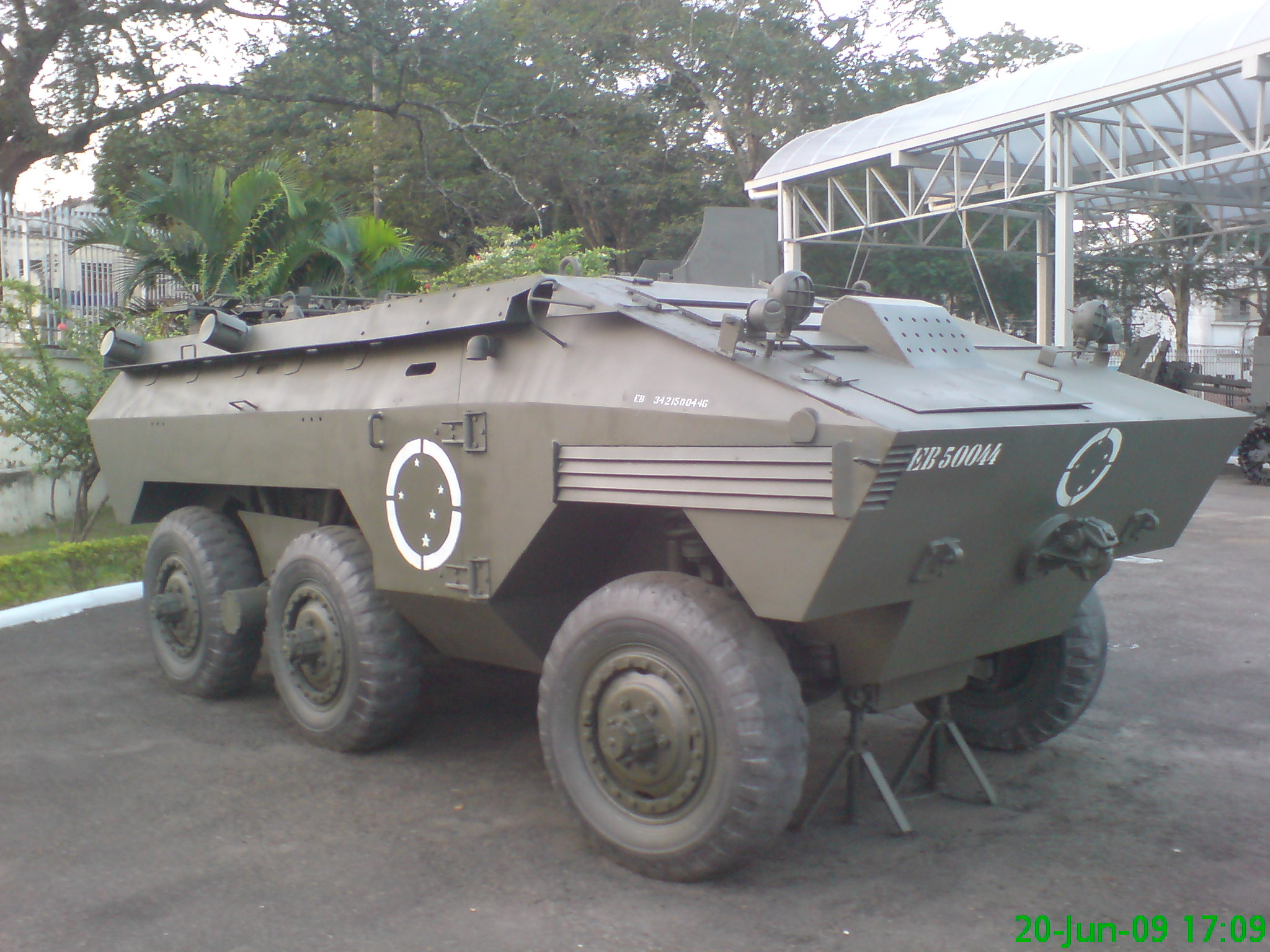 The first EE-11 Urutu produced is now on public display at the "Museu Militar Conde de Linhares" located in Rio de Janeiro, Brazil.